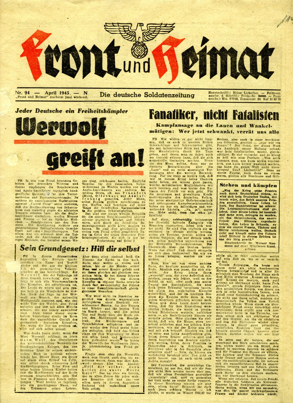 Front page of Front und Heimat: Die deutsche Soldatenzeitung ("Front and Homeland: The German Soldier's Newspaper"), a newspaper for German soldiers during World War II, published by Franz Eher Nachf. GmbH in Berlin in April 1945. Eher-Verlag was the central publishing house of the Nazi Party and one of the largest book and periodical firms during the Third Reich. In 1945, the publisher was banned and dismantled. The text reads: "Jeder Deutsche ein Freiheitskämpfer; Werwolf greift an! (...)", "Sein Grundgesetz: Hilf dir selbst (...)", "Fanatiker, nicht Fatalisten; Kampfansage an die Lauen und Wankelmütigen: Wer jetzt schwankt, verrät uns alle (...)", etc. No known copyright restrictions. The newspaper was published in Germany by a legal entity under public law more than 70 years ago that do not mention the author. Legal disclaimer This image shows (or resembles) a symbol that was used by the National Socialist (NSDAP/Nazi) government of Germany or an organization closely associated to it, or another party which has been banned by the Federal Constitutional Court of Germany. The use of insignia of organizations that have been banned in Germany (like the Nazi swastika or the arrow cross) are also illegal in Austria, Hungary, Poland, Czech Republic, France, Brazil, Israel, Ukraine, Russia and other countries, depending on context. In Germany, the applicable law is paragraph 86a of the criminal code (StGB), in Poland – Art. 256 of the criminal code (Dz.U. 1997 nr 88 poz. 553).